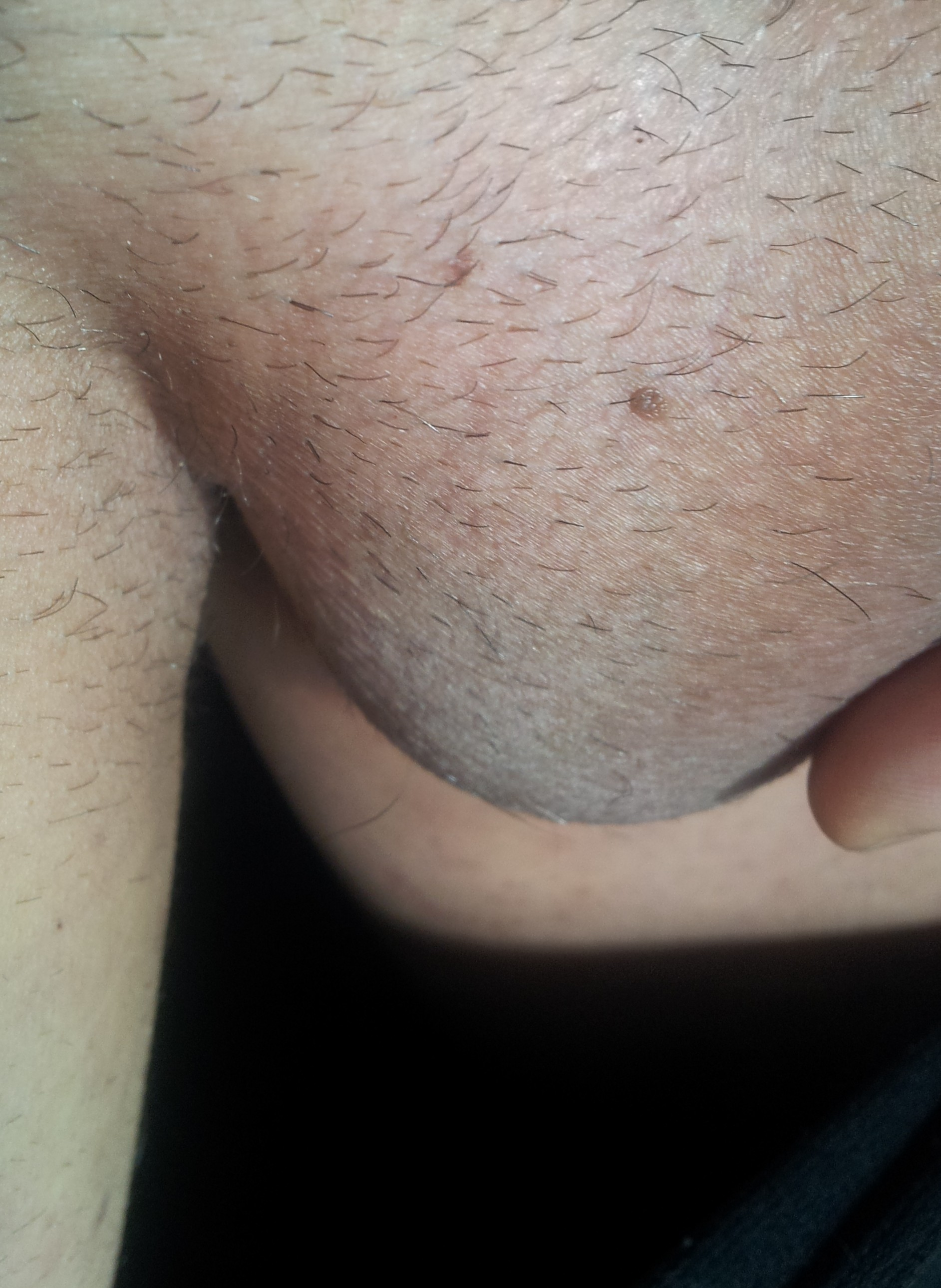 small condylomata on testicles